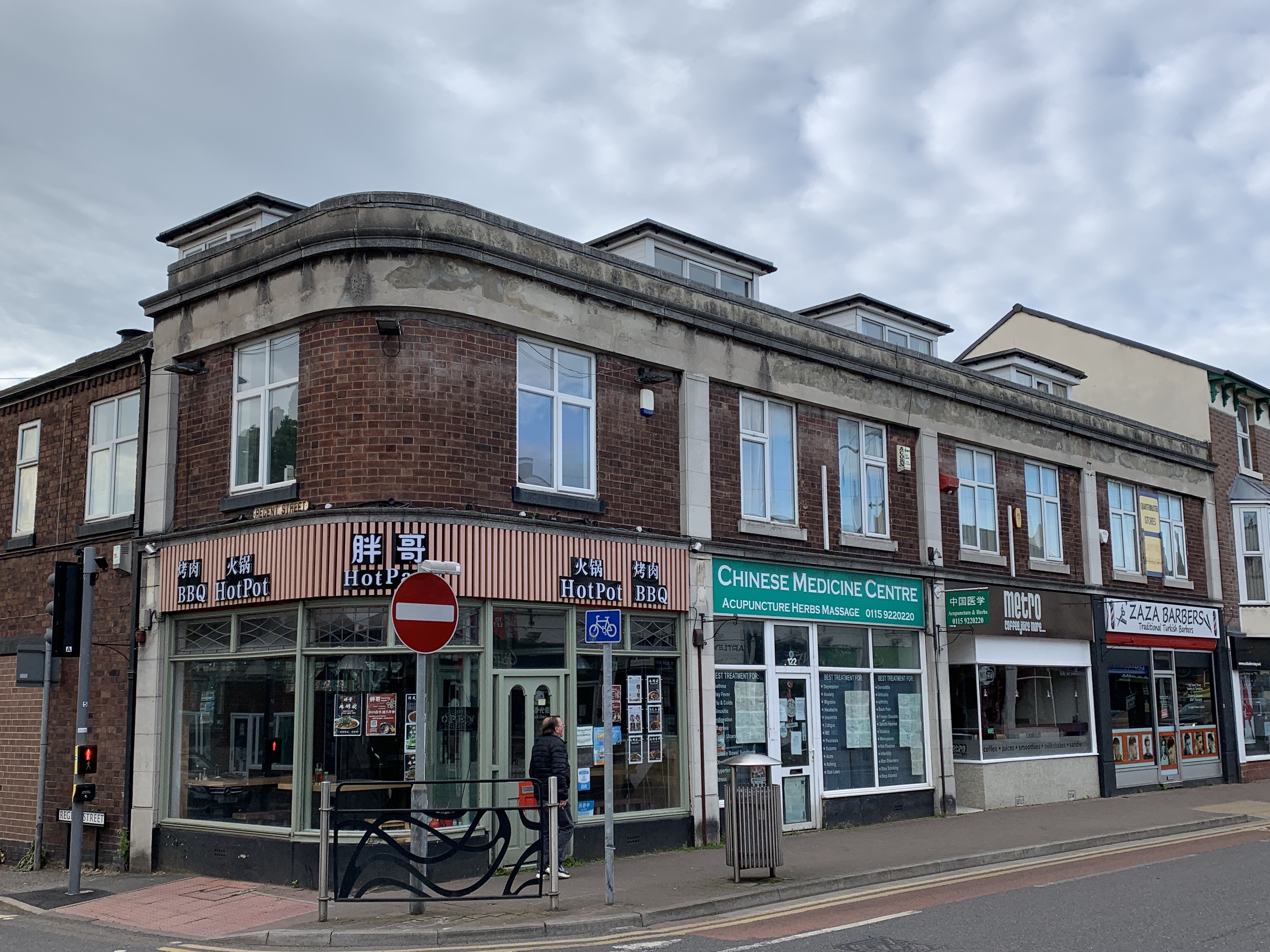 Four shops, 118-124 High Road, Beeston. 1928. Architect Arnold Plackett